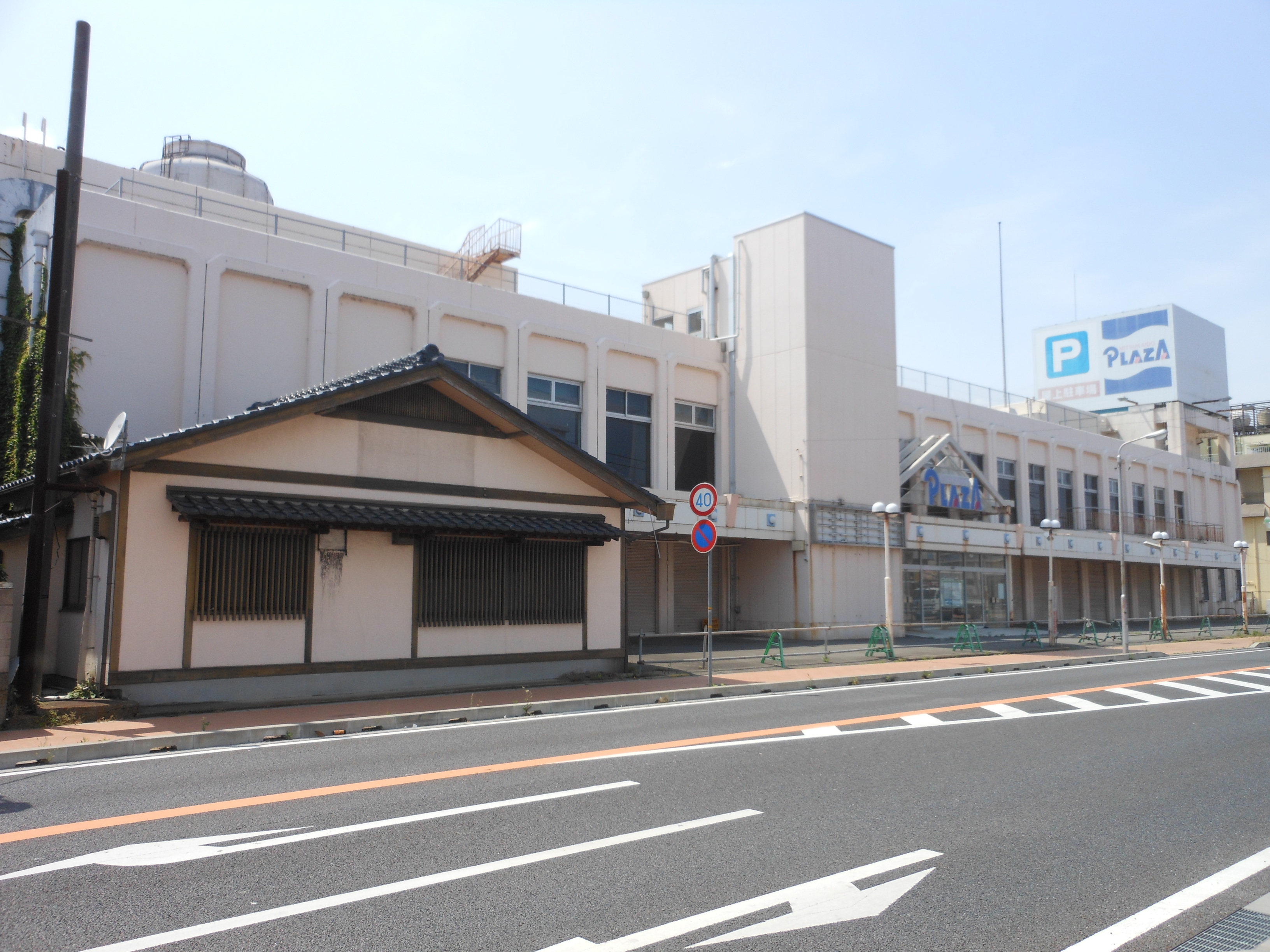 This was the Mitsukaido Plaza, which was a shopping center in Joso, Ibaraki, Japan.